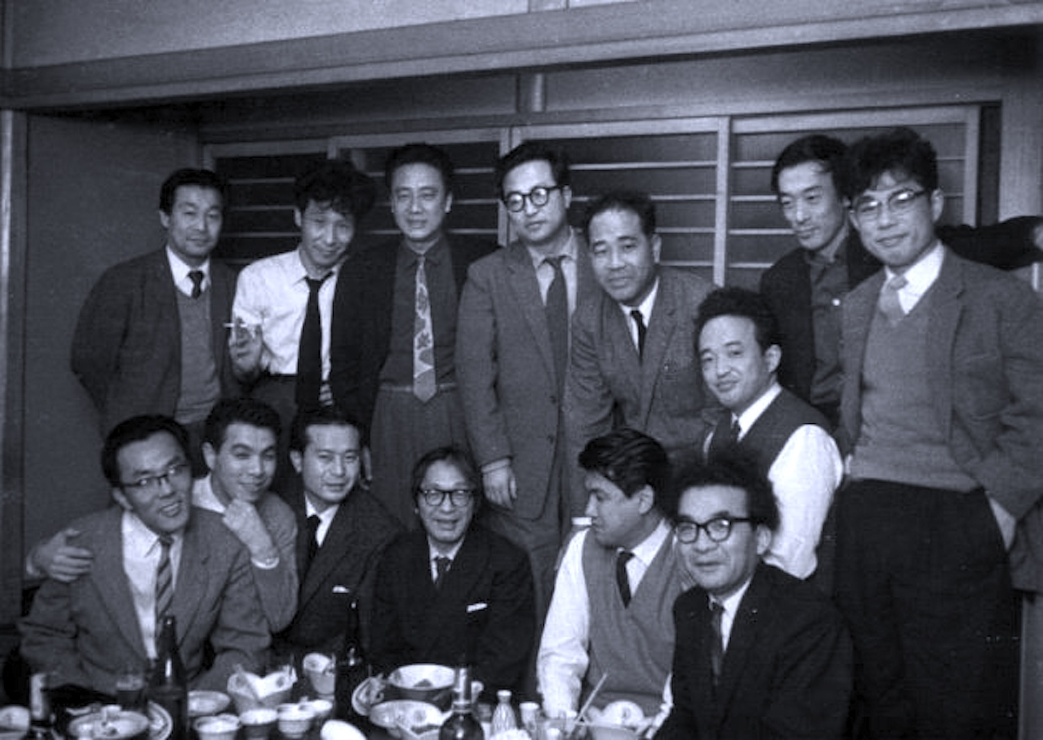 Sitting, from left: Shūsaku Endō (1923–96), unknown, unknown, Hajime Togaeri (1914–63), Tatsuo Yoshioka (?–?). Standing, from left: unknown, Shōtarō Yasuoka 1920– ), unknown, Nobuo Kojima (1915–2006), Junzō Shōno (1921–2009), Tan Onuma (1918–96), Junnosuke Yoshiyuki (1924–94), Junkō Shindō (1922–99)